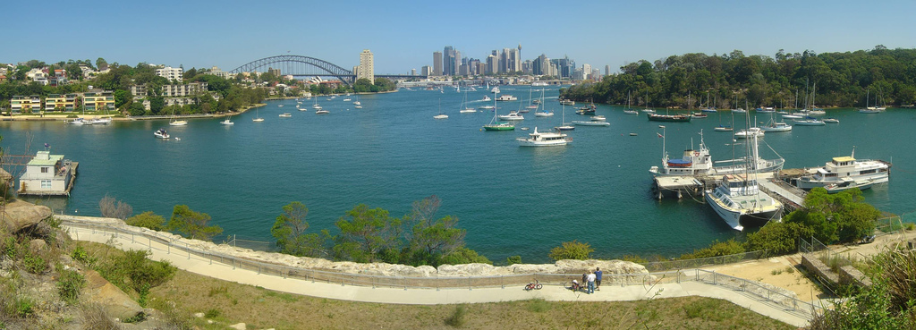 View of Sydney city from Waverton Peninsula Reserve, Waverton, Sydney